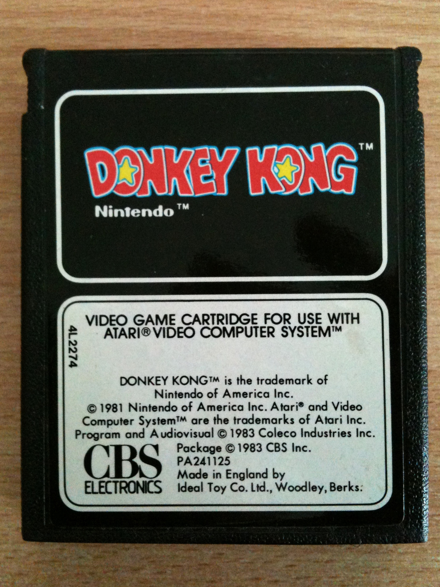 Atari 2600 Cartridge of the game Donkey Kong